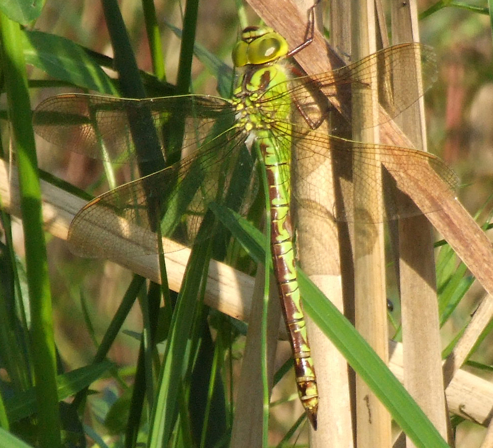 Green Hawker (Aeshna viridis), female, Kirchwerder, Hamburg, Germany